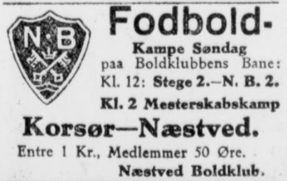 Advertisement for a 1927–28 SBUs Mesterskabsrække football match on 13 May 1928 - The text reads: Fodbold-Kampe Søndag paa Boldklubbens Bane: Kl. 12: Stege 2.-N. B. 2. Kl. 2 Mesterskabskamp Korsør-Næstved. Entre 1 Kr., Medlemmer 50 Øre. Næstved Boldklub. Featured in the advertisement is the logo of the defunct football club, Næstved Boldklub.